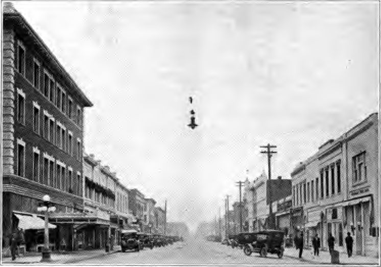 Downtown in Corvallis, Oregon circa 1920